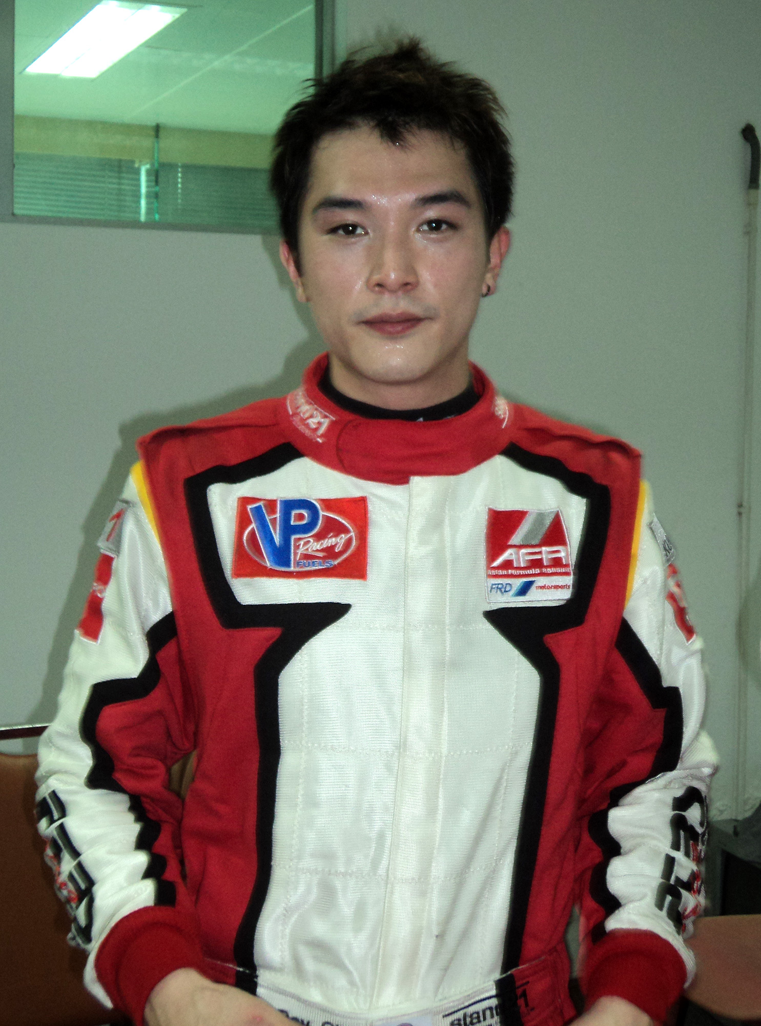 Roy Chiu in March 2012, just finished driving in his first ever motor sport race in the AFR Series.